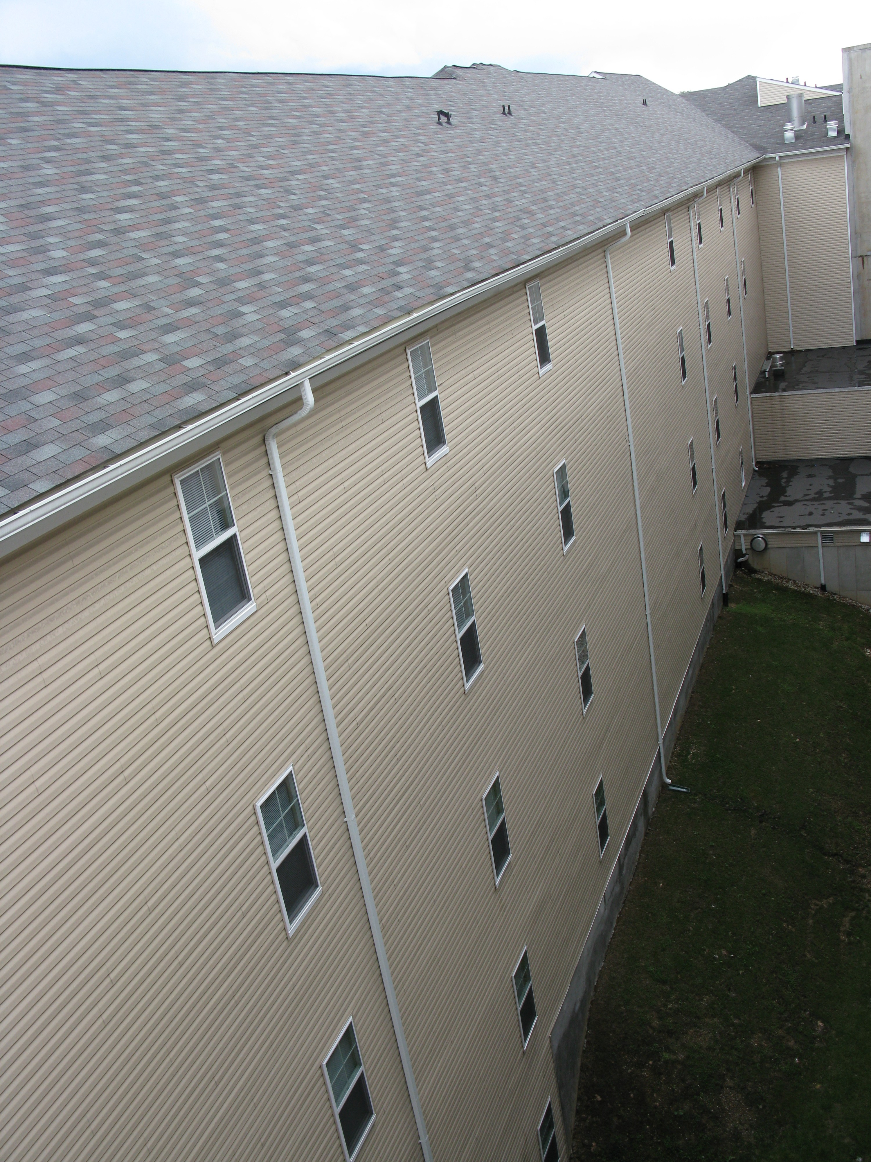 The bare inner wall of Concord Park facing toward the parking garage, Russett, Maryland